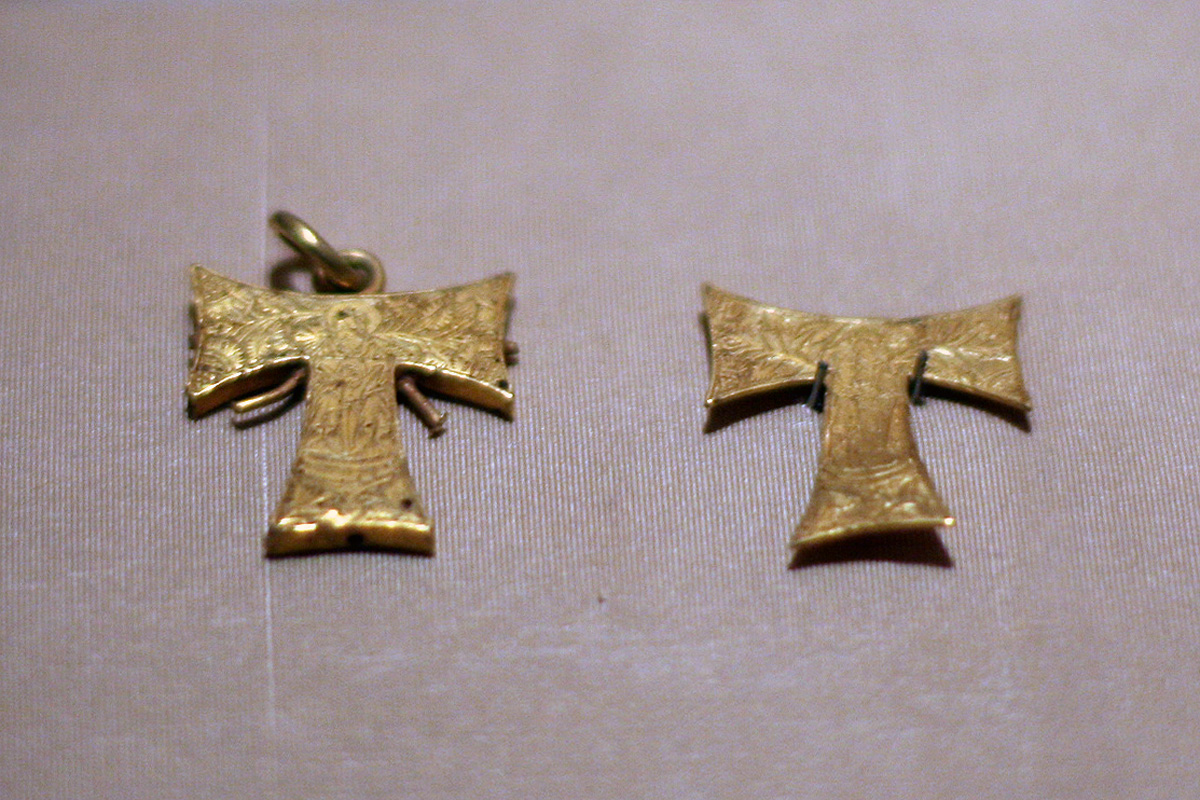 Tau Cross, ca. 1485 English Cast and engraved gold; Overall: 1 3/8 x 1 1/8 x 1/8 in. (3.5 x 2.9 x 0.3 cm) The Metropolitan Museum of Art, New York, The Cloisters Collection, 1990 (1990.283a, b) View at the Metropolitan Museum of Art website Wikipedia Loves Art at the Metropolitan Museum of Art This photo of item # 1990.283 at the Metropolitan Museum of Art was contributed under the team name "shooting_brooklyn" as part of the Wikipedia Loves Art project in February 2009. Metropolitan Museum of Art The original photograph on Flickr was taken by shooting brooklyn—please add a comment to the original Flickr page whenever a use has been made on Wikipedia or another project. Project galleries on Flickr: this institution, this team